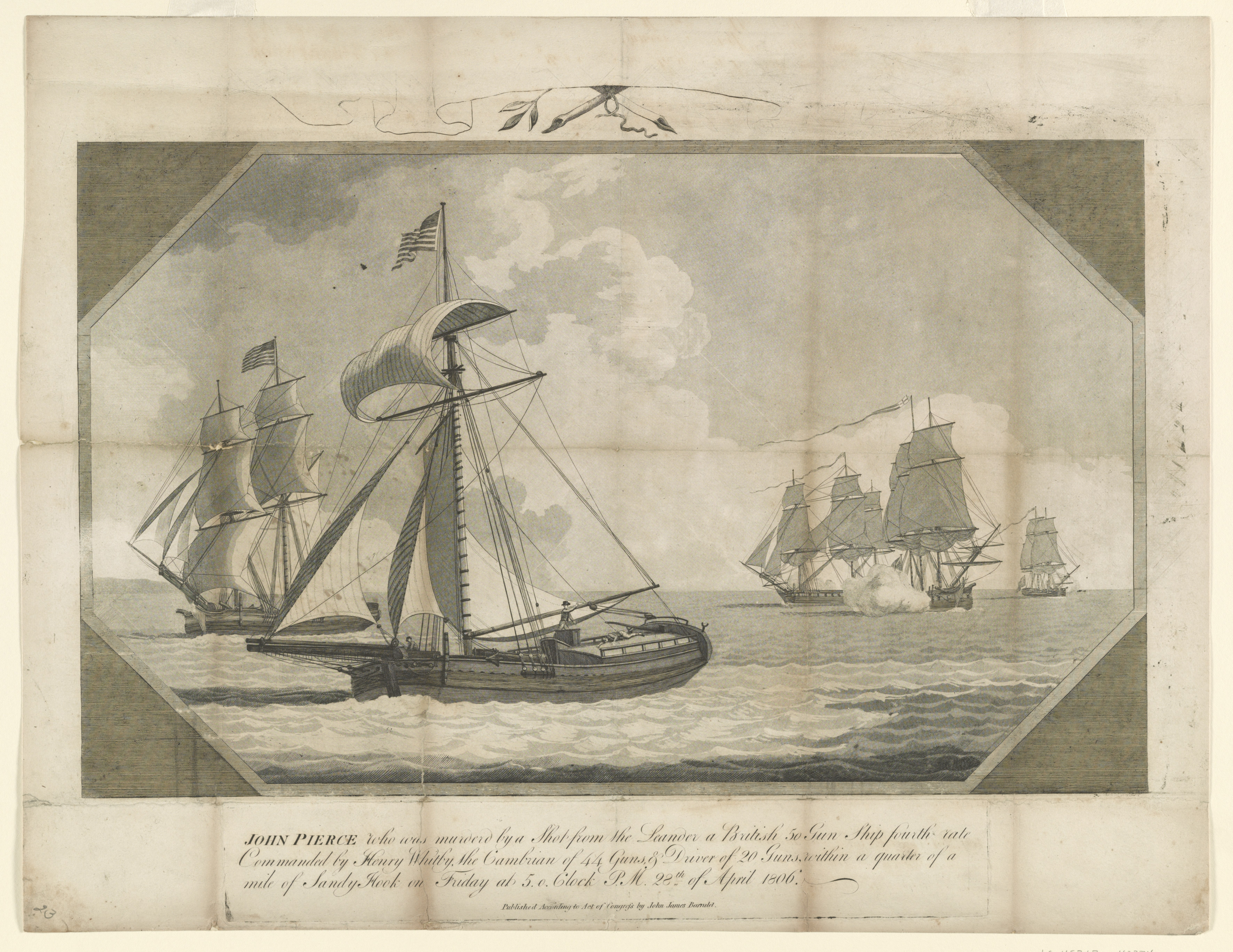 Title: John Pierce who was murdered by a shot from the Leander a British 50 gun ship fourth rate. 28th of April 1806 Physical description: 1 print. Notes: Associated name on shelflist card: Barralet, John James.; This record contains unverified data from PGA shelflist card.